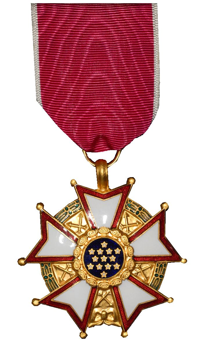 Legionair Legion of Merit USA